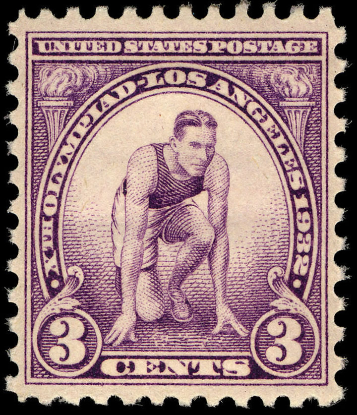 Xth Olympiad Los Angeles Runner 3-cent 1932 issue U.S. stamp. The Games of the X Olympiad (1932 Summer Olympics) were held in Los Angeles from July 30-August 14, 1932.